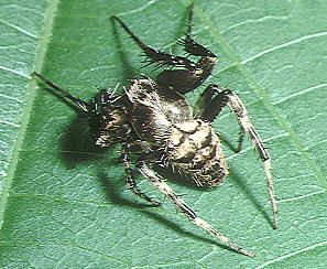 male Neoscona punctigera from Okinawa.